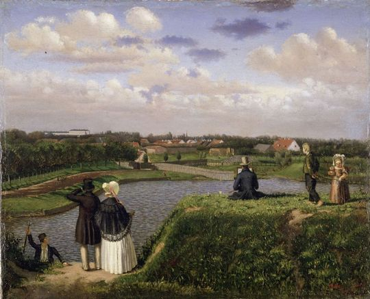 The view towards Frederiksberg Palace from Holck's Bastion in the Western Rampart of Copenhagen, Denmark